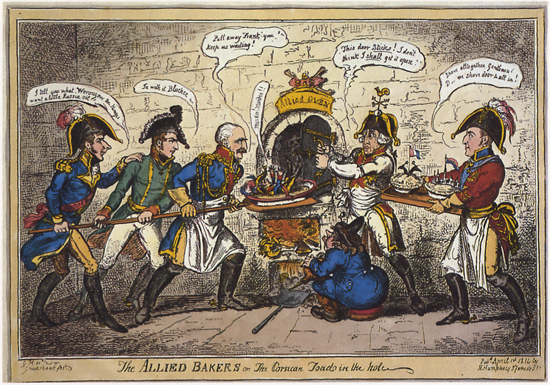 In this image Charles XIV Johan Bernadotte of Sweden, Michael Woronzoff of Russia and Marshal Blücher of Prussia try to shove Napoleon I of France into the 'Allied Oven'. On the other side Francis I emperor of Austria feigns opening the door, while actually preventing the dish from going in. This leads to impatient reactions of the other commanders. The weathervane on the emperors hat symbolizes his indecisiveness. On the right the Duke of Wellington approaches with more cakes that need to be baked. One of the cakes holds the French tricolore and two spurred jack-boots, the other cake contains the city of Bordeaux. In front of the oven sits a Dutchman holding a pair of bellows, which he does not use. With this image Cruikshank takes a theme from his great inspiration James Gillray, who created a similar scene in 1806 with a totally different distribution of roles: Tiddy Doll, the great French-Gingerbread-Baker; drawing out a new Batch of Kings.